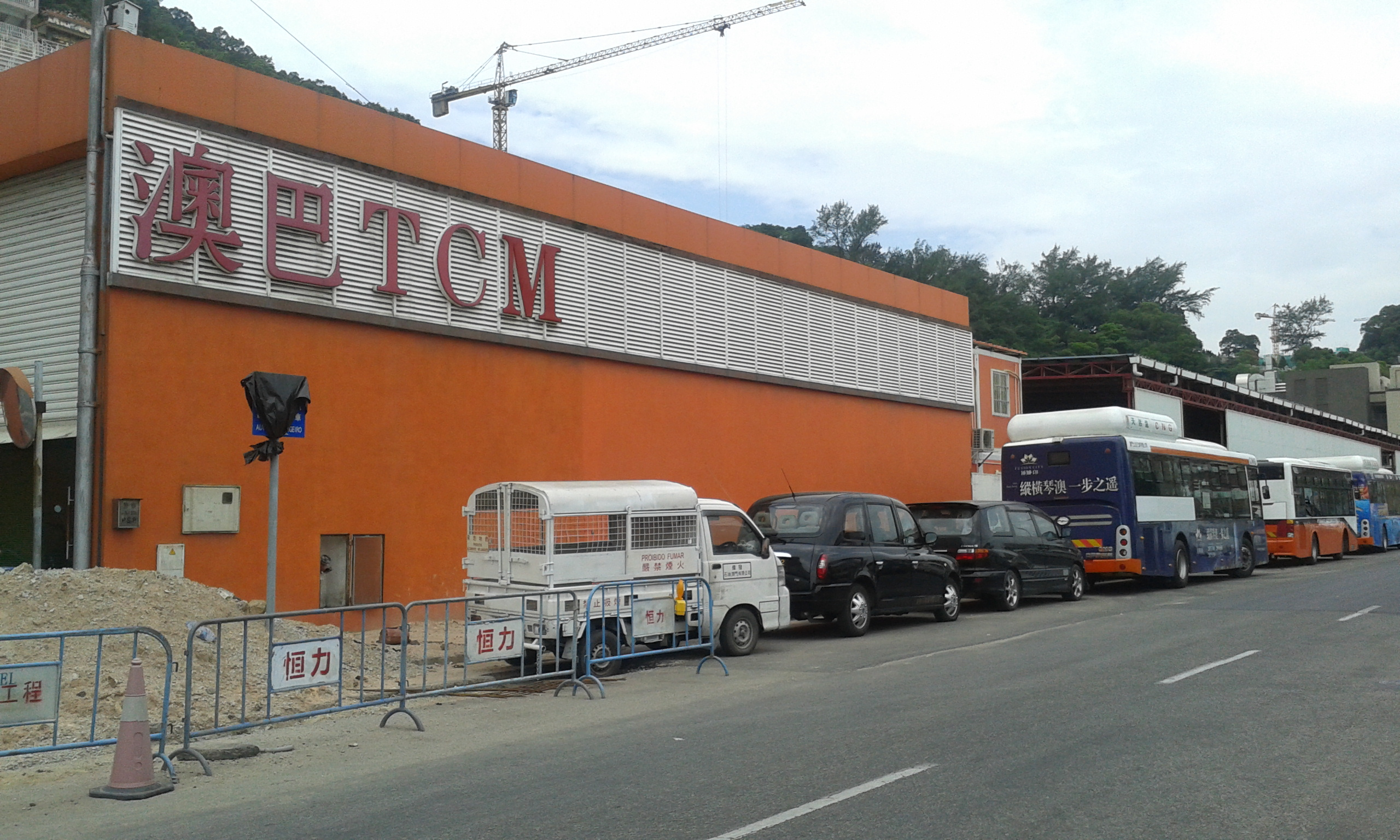 TCM Bus Depot